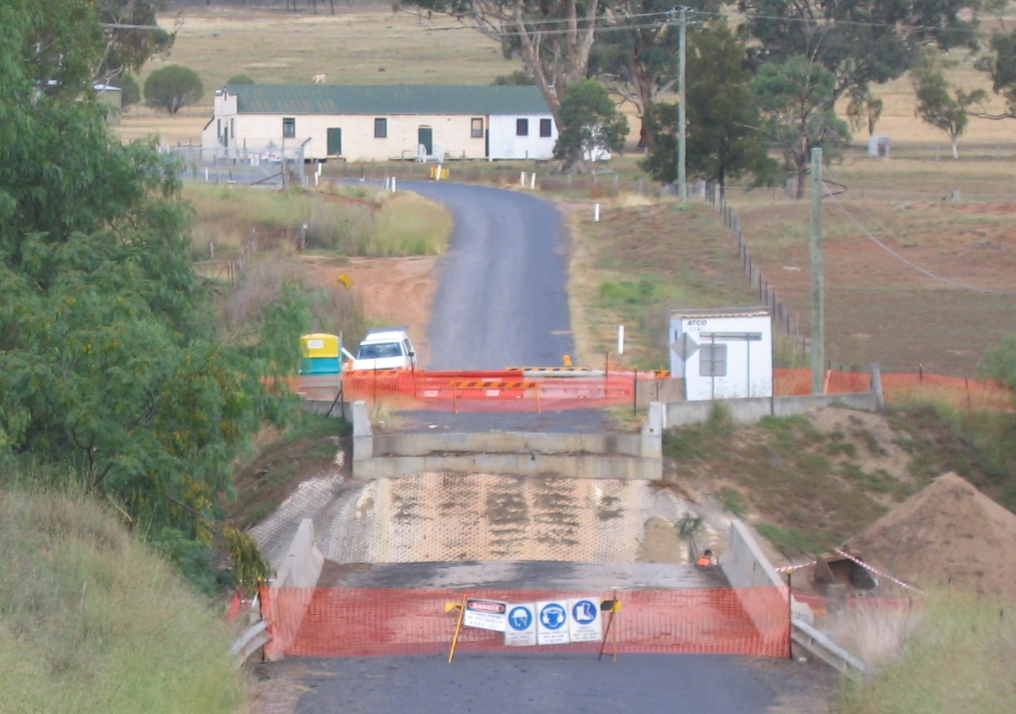 Kirk's Bridge on Bylong Valley Way and Baerami community hall